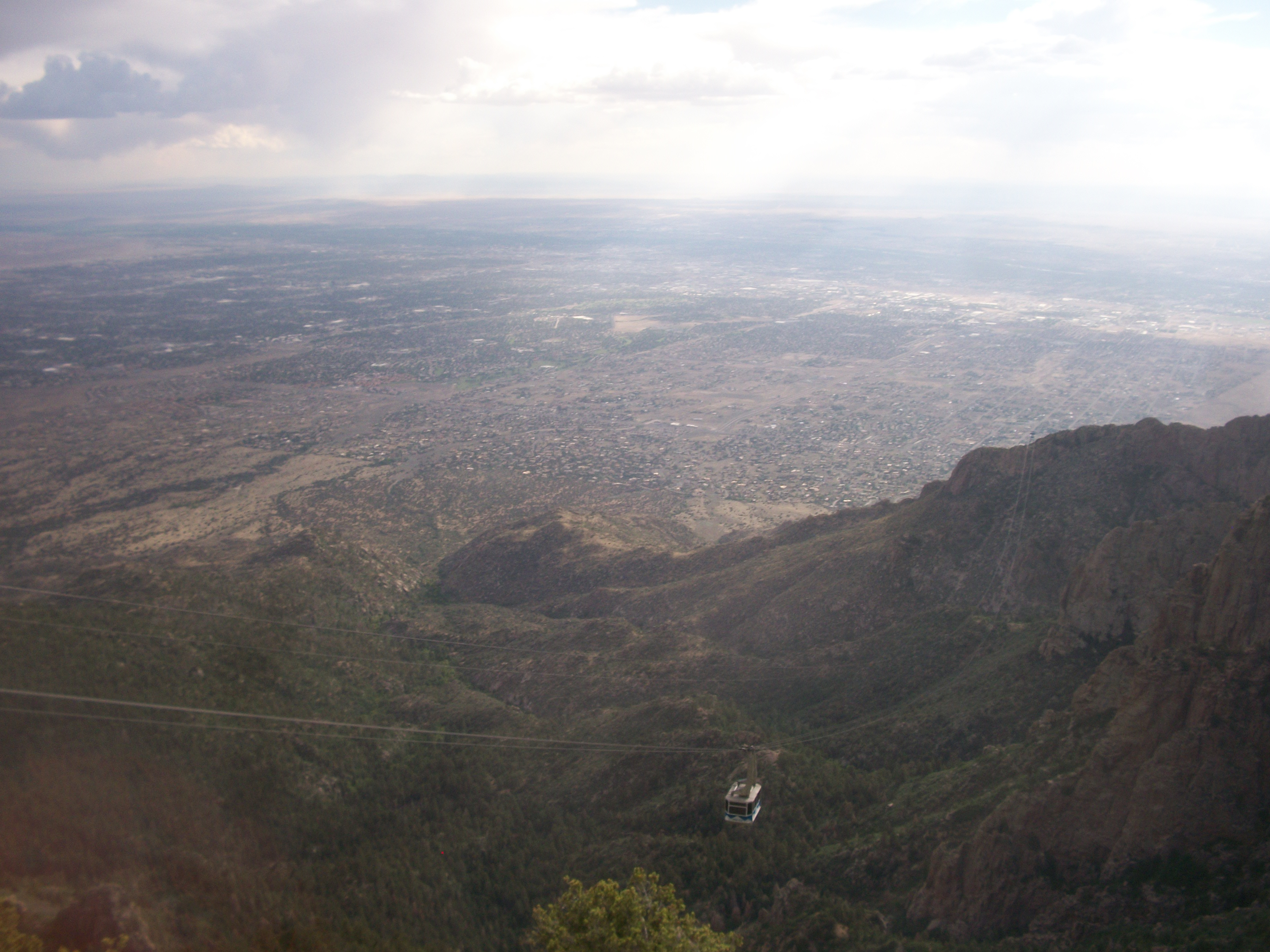 An overview of the tramway and a view of metropolitan Albuquerque from the upper station of the Sanida Peak Trammway